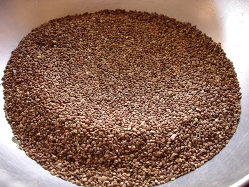 Kodo Millet is used in Traditional Healing of Chhattisgarh specially for Type 2 Diabetes